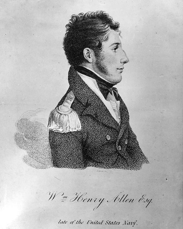 Engraving of William Henry Allen, United States Naval Officer.